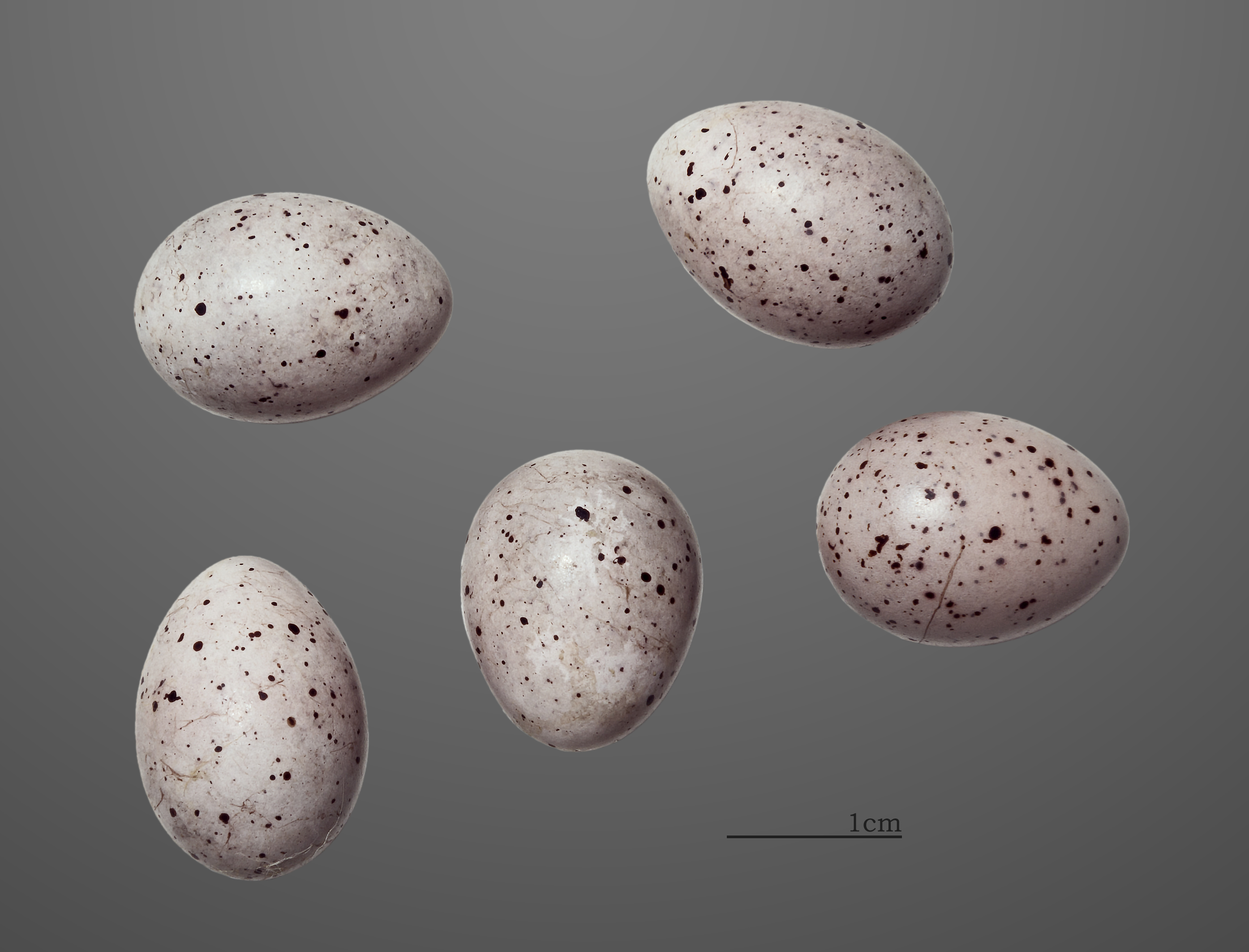 Egg of Icterine warbler. Collection of Jacques Perrin de Brichambaut